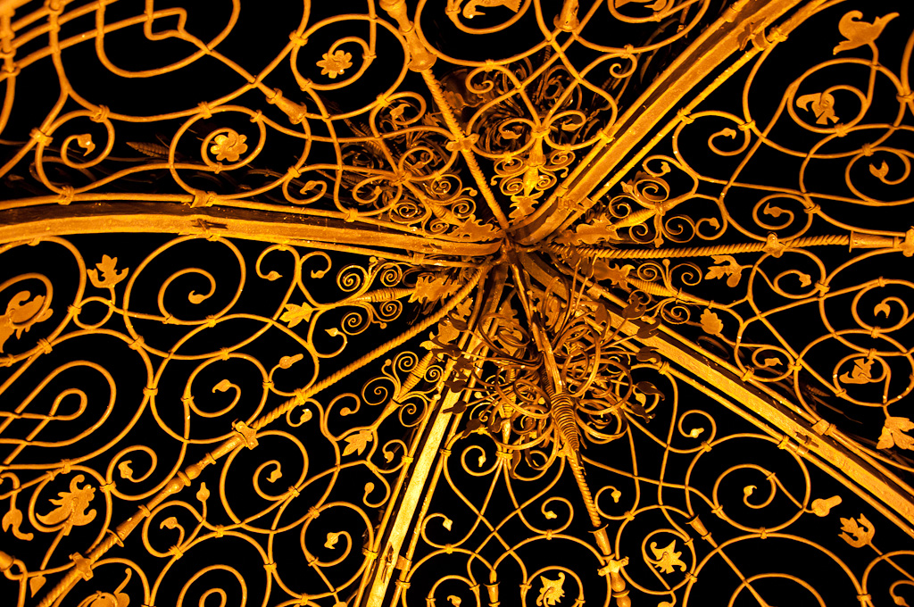 Eiserner Brunnen, Detail Picture of the wrought-iron ornamentation covering the well